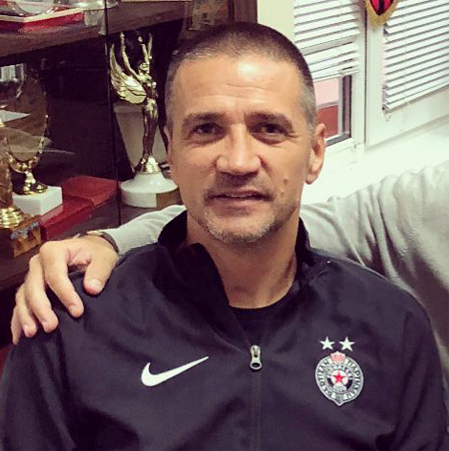 Partizan head coach Zoran Mirković (with his former team-mate Dejan Čurović) prior to the Serbian SuperLiga match in Šabac against FK Mačva Šabac in August 2018.